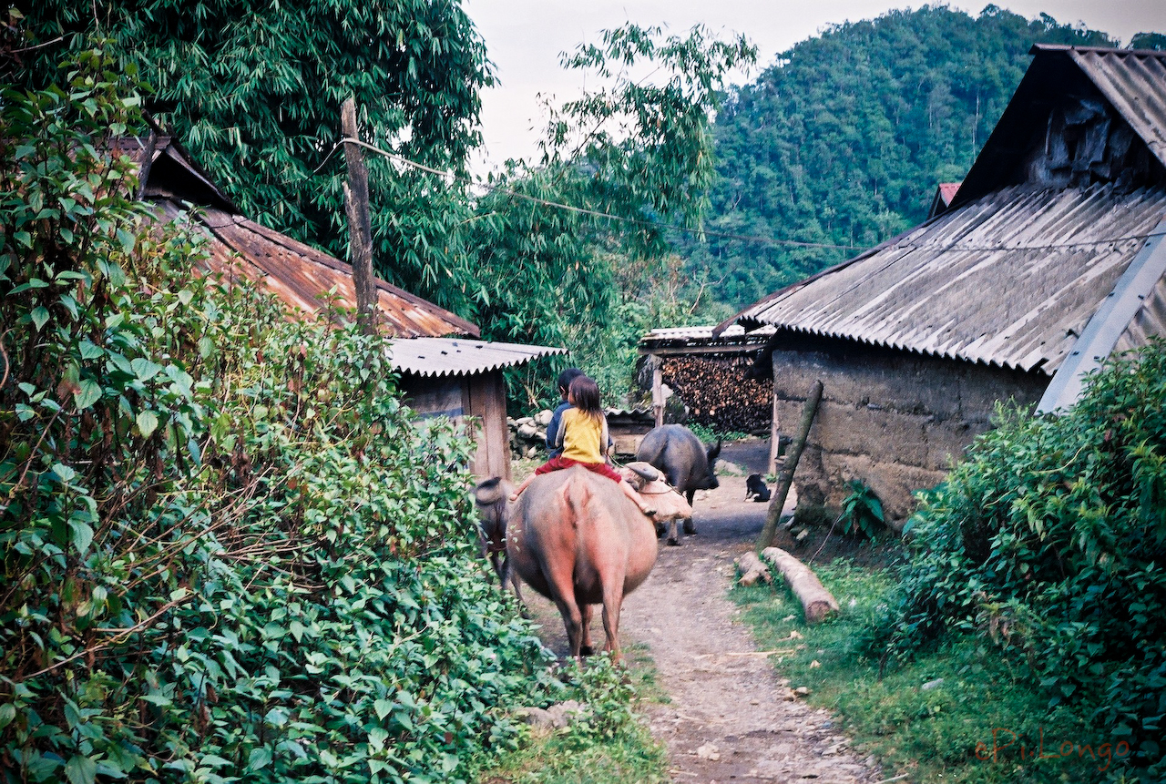 In Northern Mountainous Region of Vietnam.